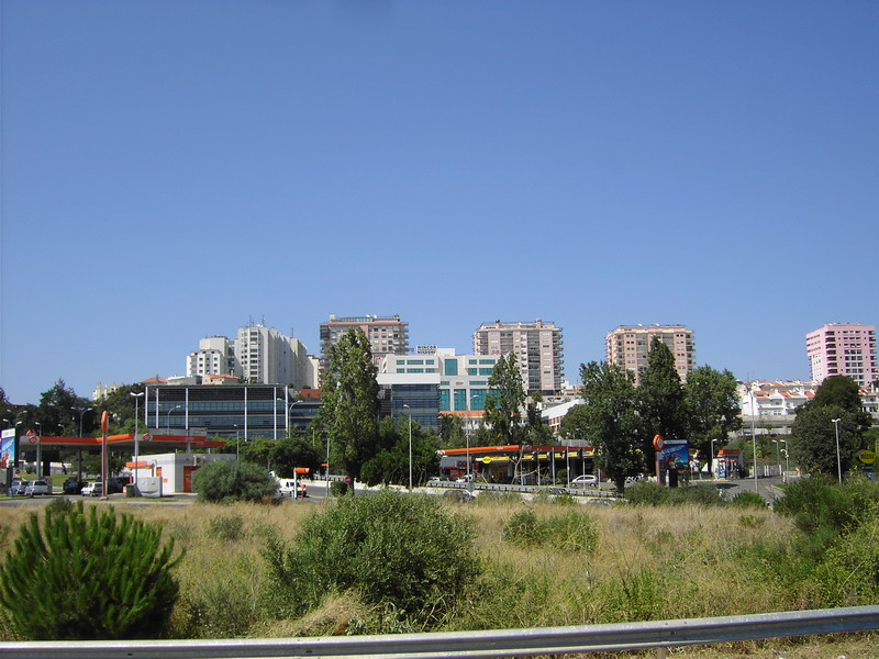 City of Alfragide in Portugal